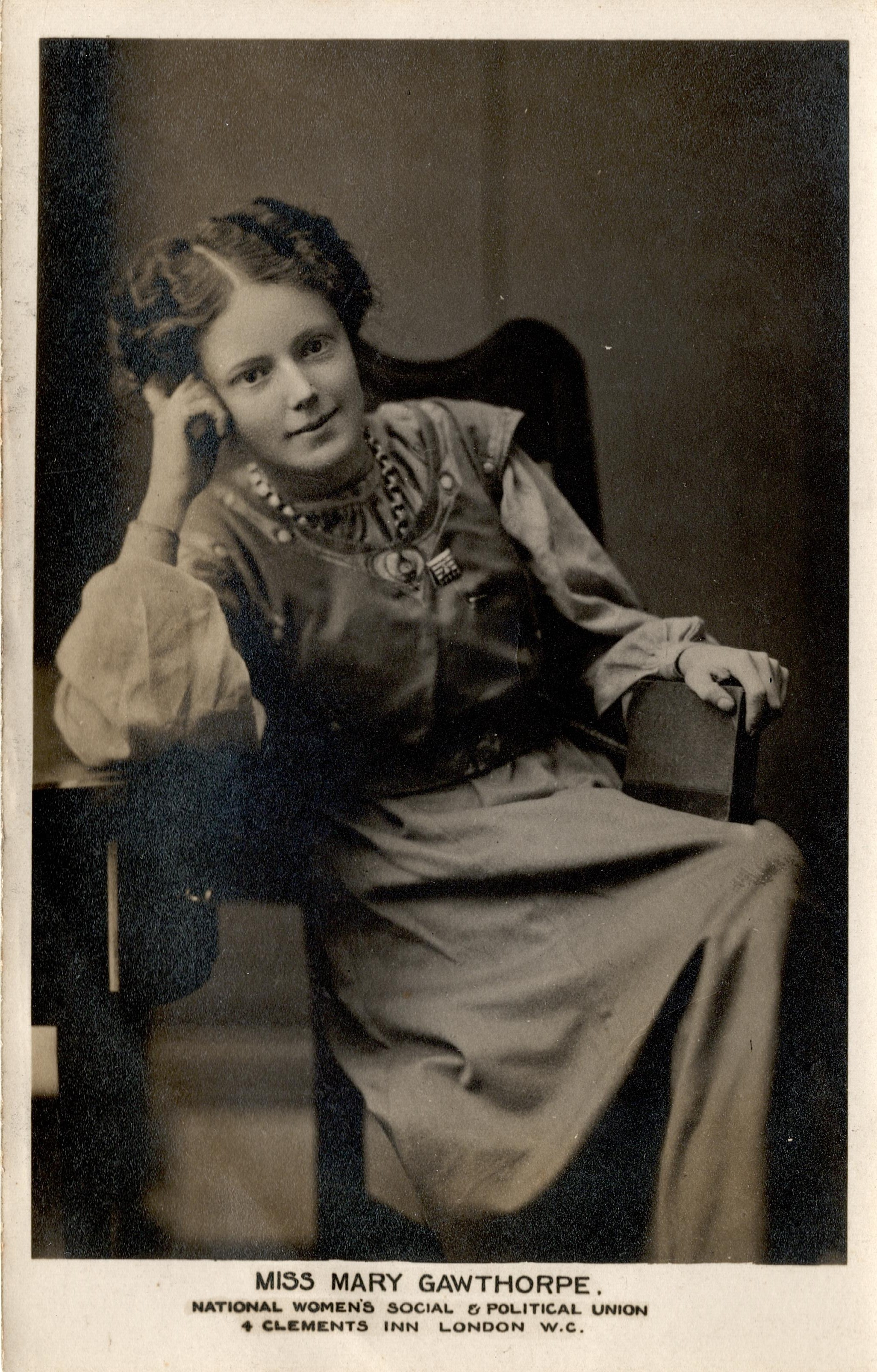 Mary Gawthorpe 1906 - 1914 so lets guess 1910 TWL 2002 47